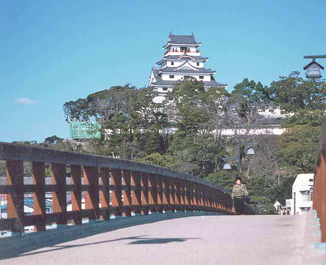 Karatsu Castle, Karatsu, Saga, Japan I took this photograph and contribute it to the public domain.